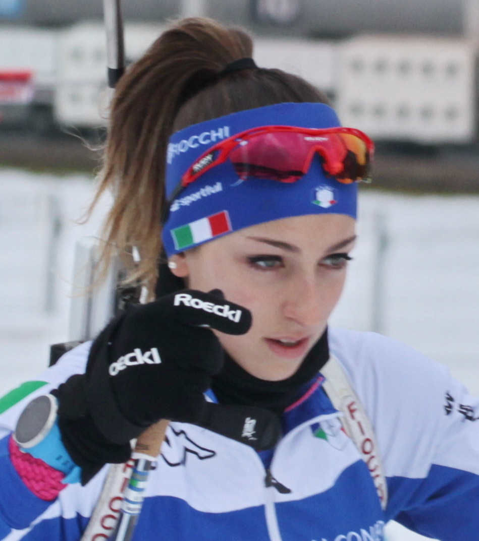 2018 Oberhof Biathlon World Cup - Pursuit Women